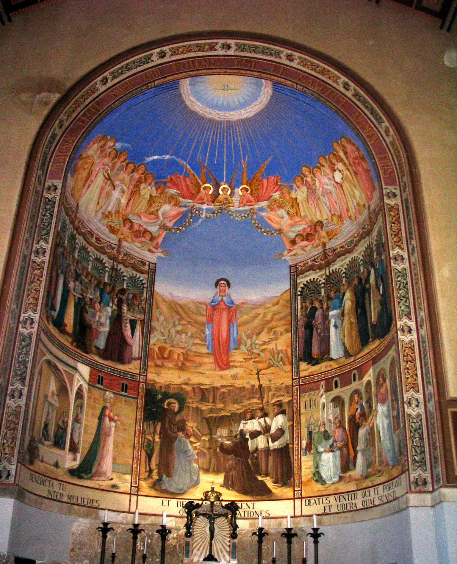 Ein Kerem, Church of Visitation